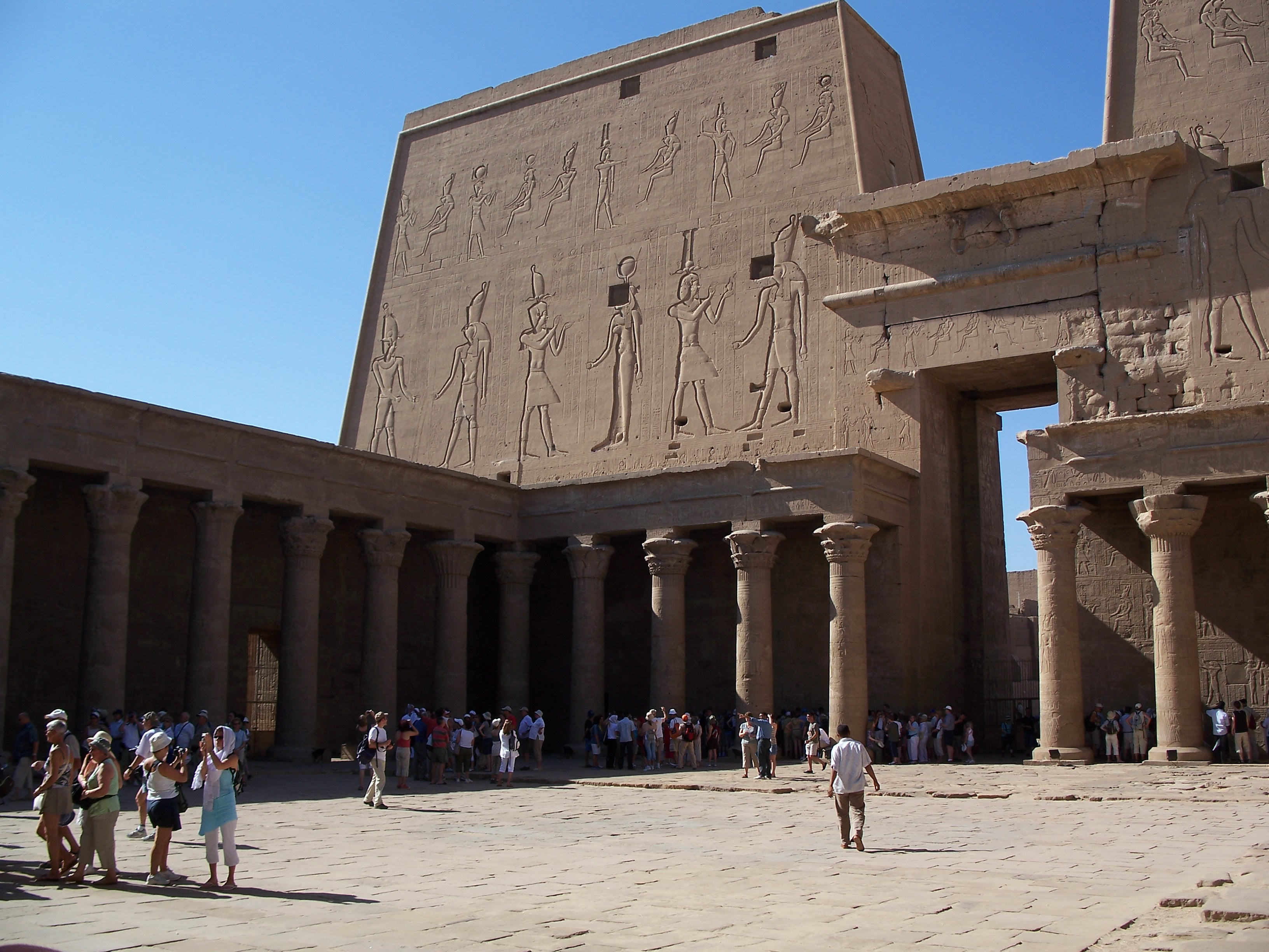 Inside Edfu Temple. Taken by myself. May 28, 2007